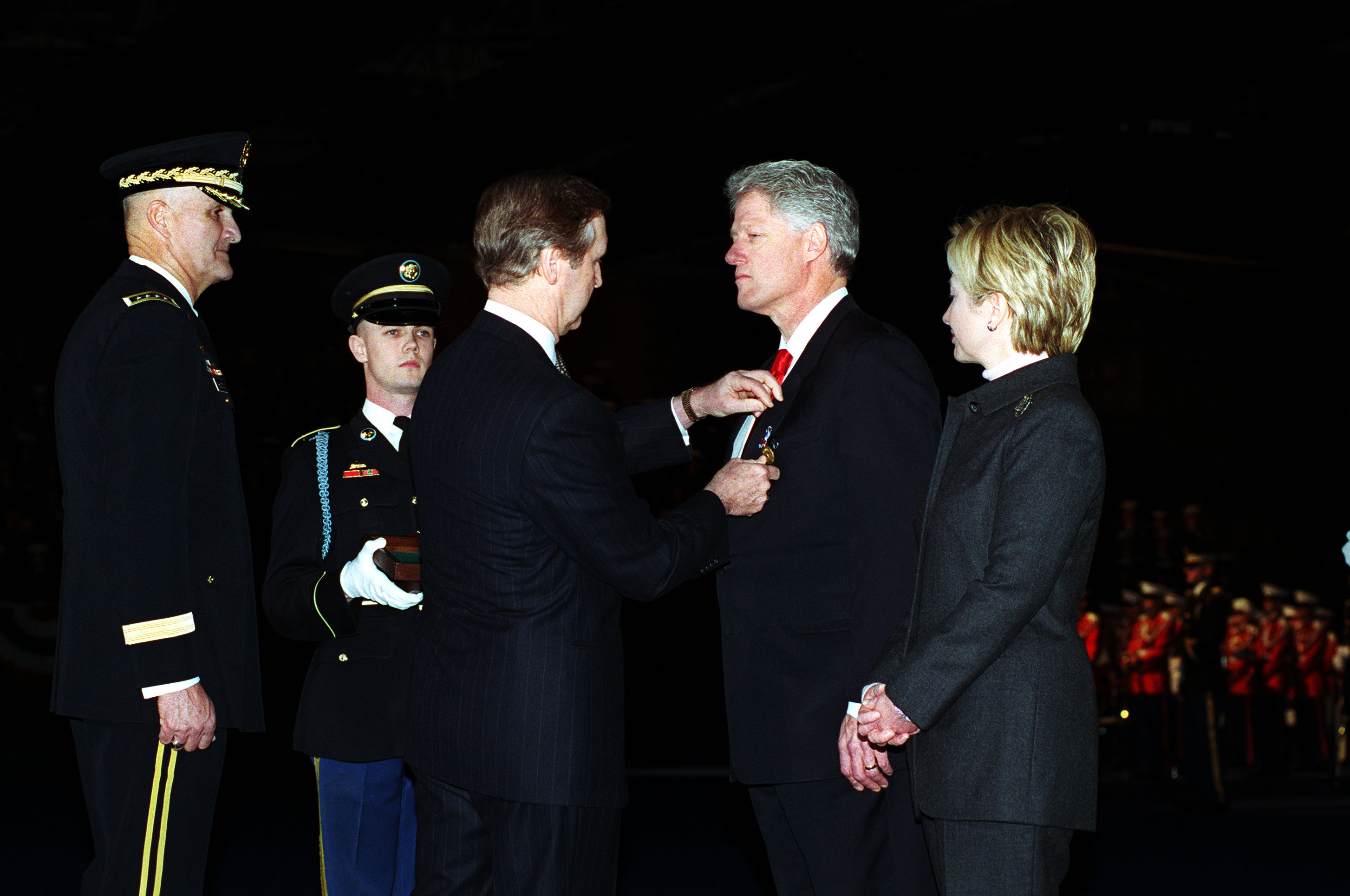 Secretary of Defense William S. Cohen presents the Department of Defense Medal for Distinguished Public Service to President Bill Clinton in a ceremonial farewell at Fort Myer, Va., on Jan. 5, 2001. Cohen and Chairman of the Joint Chiefs of Staff Gen. Henry H. Shelton (left), U.S. Army, are hosting the Armed Forces Review and Awards Ceremony in honor of the president and First Lady Hillary Rodham Clinton.